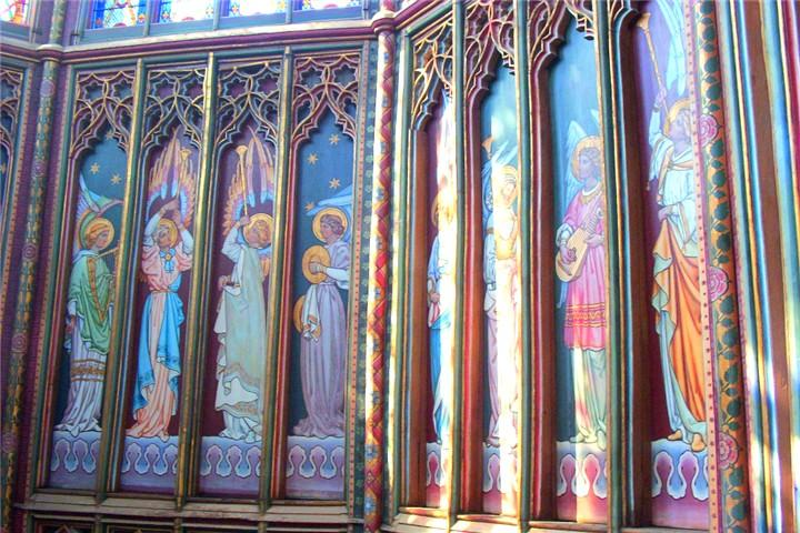 Interior of Ely Cathedral.Decoration near top of octaganol tower taken by kev747